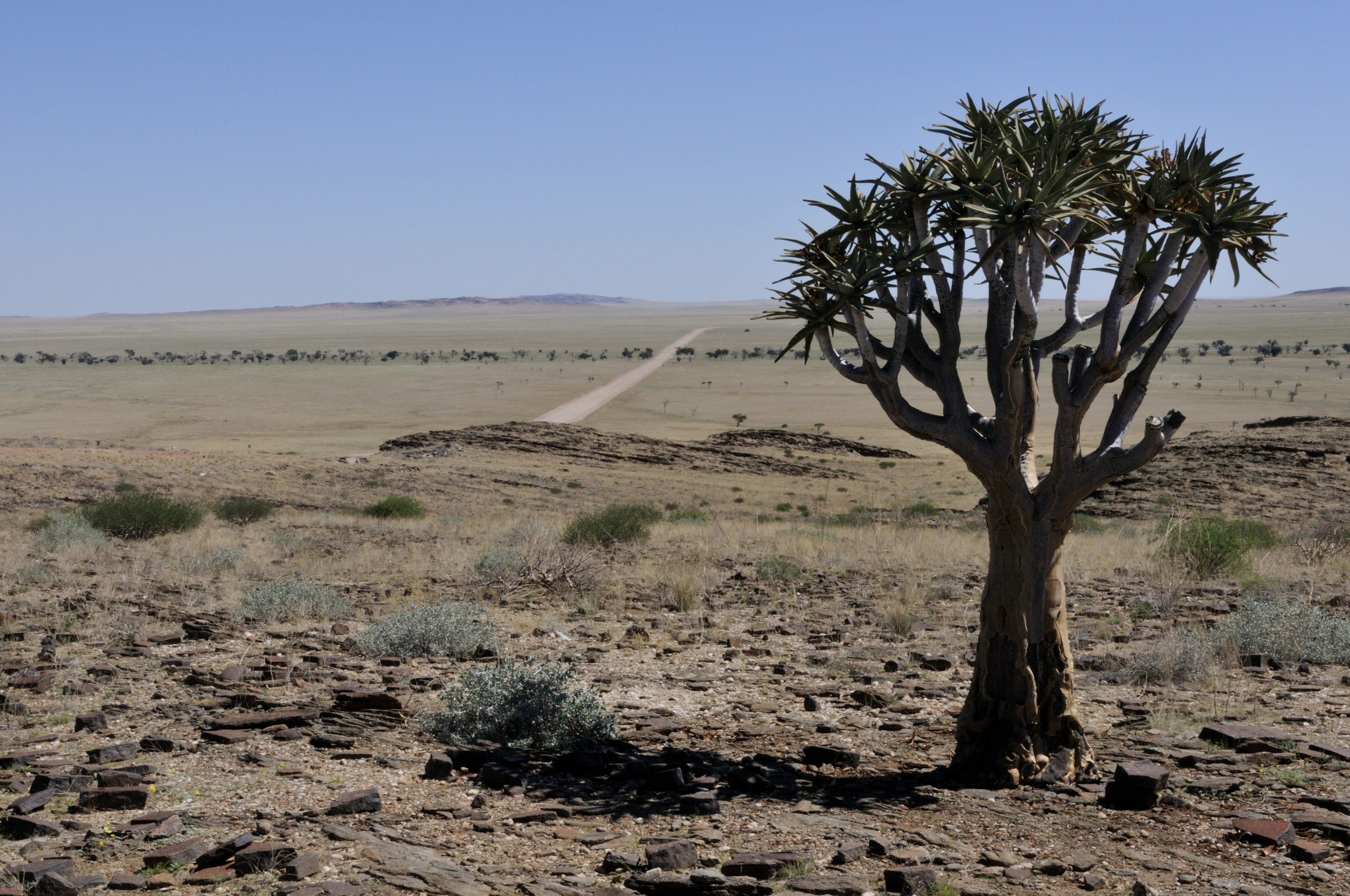 Kriess se rus, Namibia